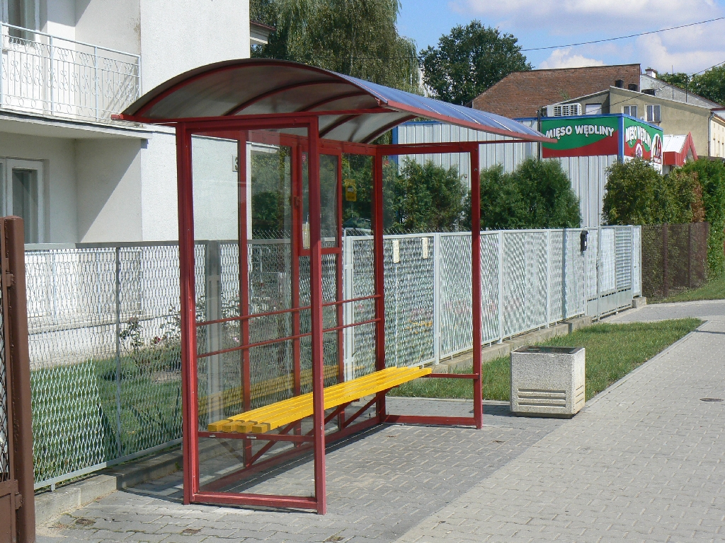 Bus stop of MZK in Bełchatów, Poland (Mielczarskiego street).